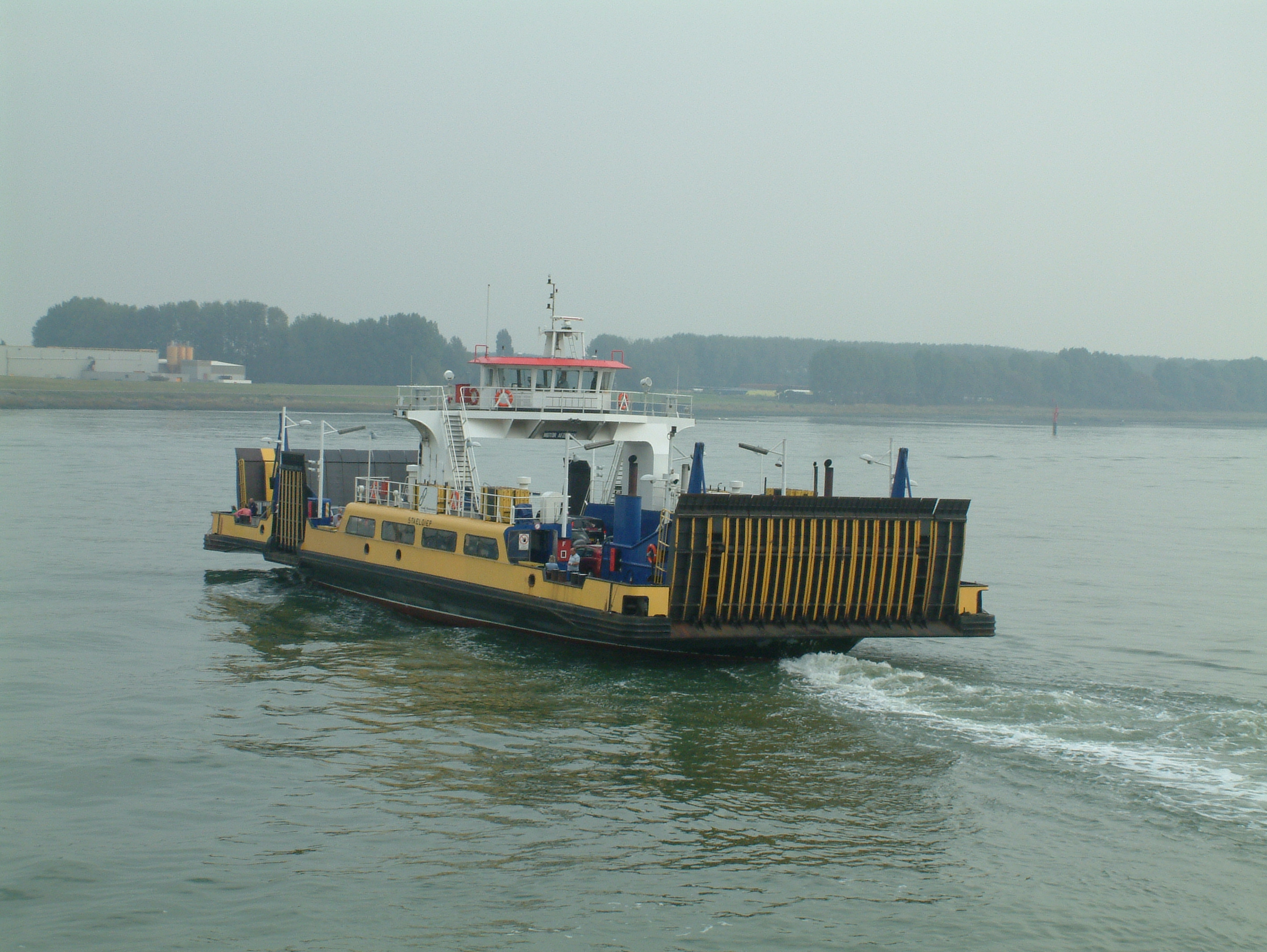 Ferry Staeldiep between Rozenburg and Maassluis